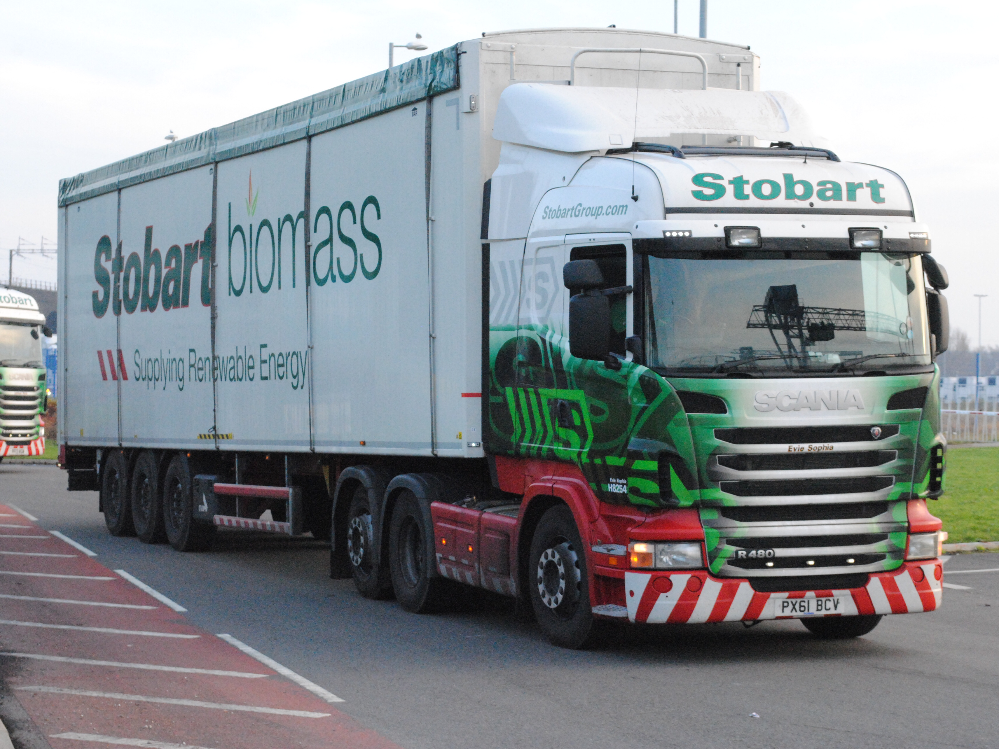 Scania R480 (H8254 Evie Sophia). seen here in Widnes